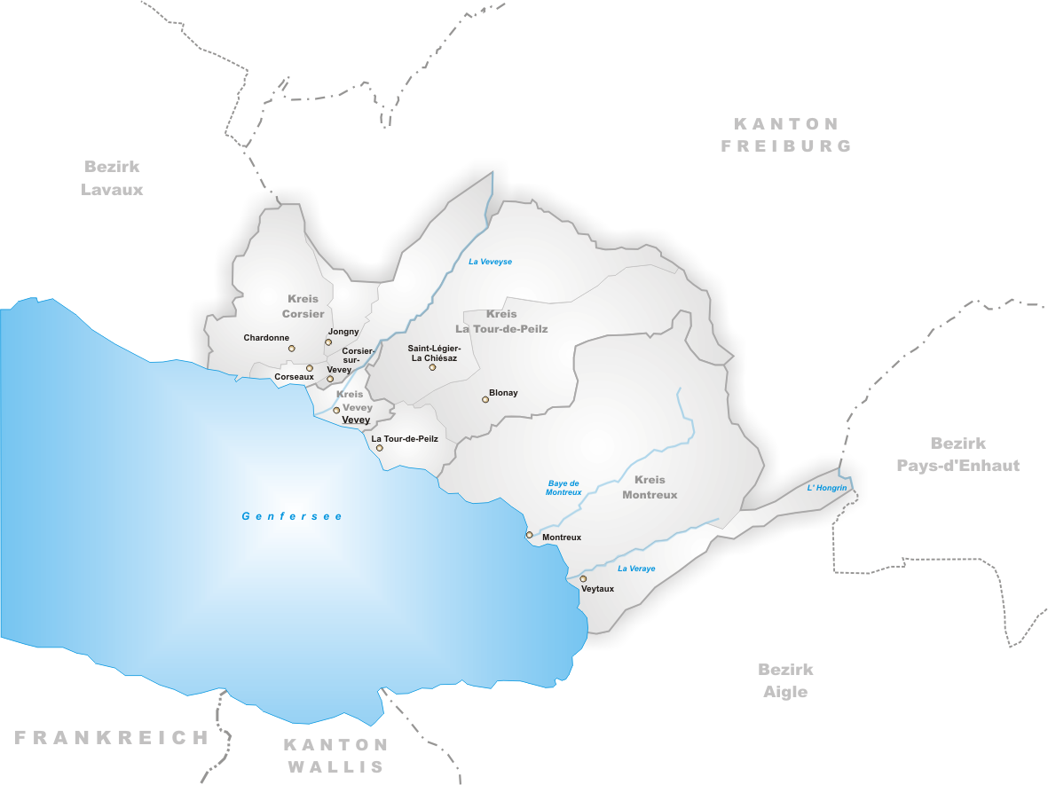 Municipalities of District Vevey until 2007